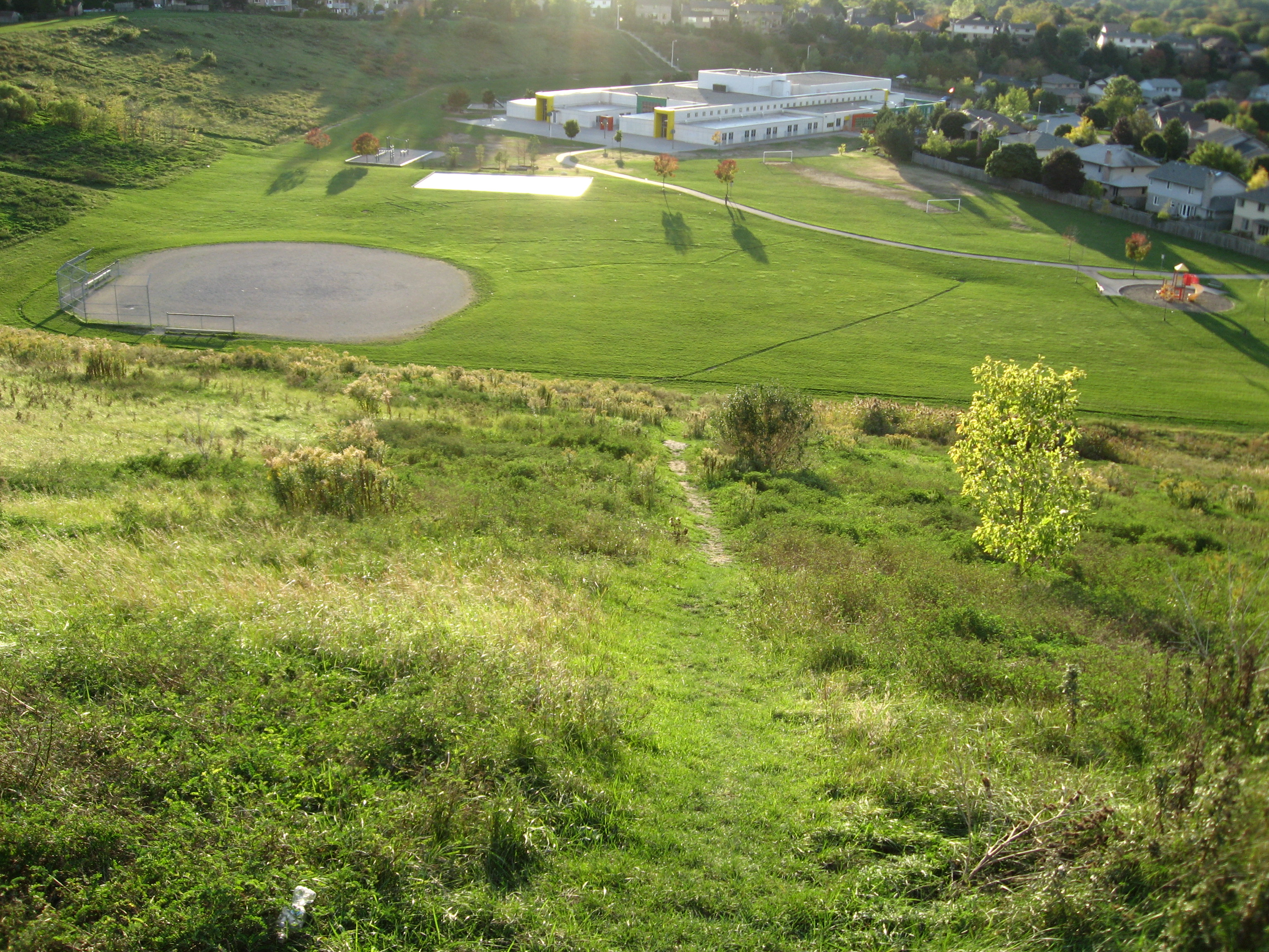 Byron Somerset School, as viewed from the East side, at the top of the hill. Byron Somerset School, as viewed from the East side, at the top of the hill.